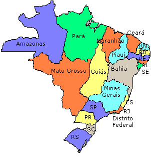 The provinces of Brazil at the end of the Second Brazilian Empire. Emerson